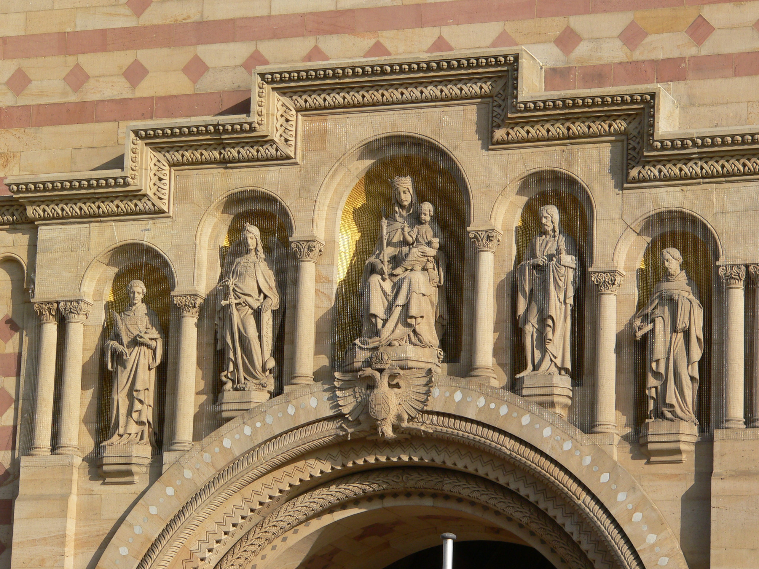 Patrons Saint At The West-Portal Of The Cathedral Of Speyer